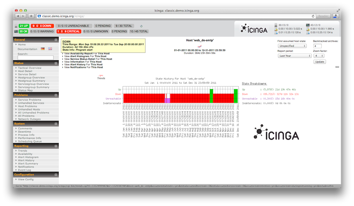 Screenshot of Icinga Classic UI 1.8 with integrated PNP4Nagios for performance graphing